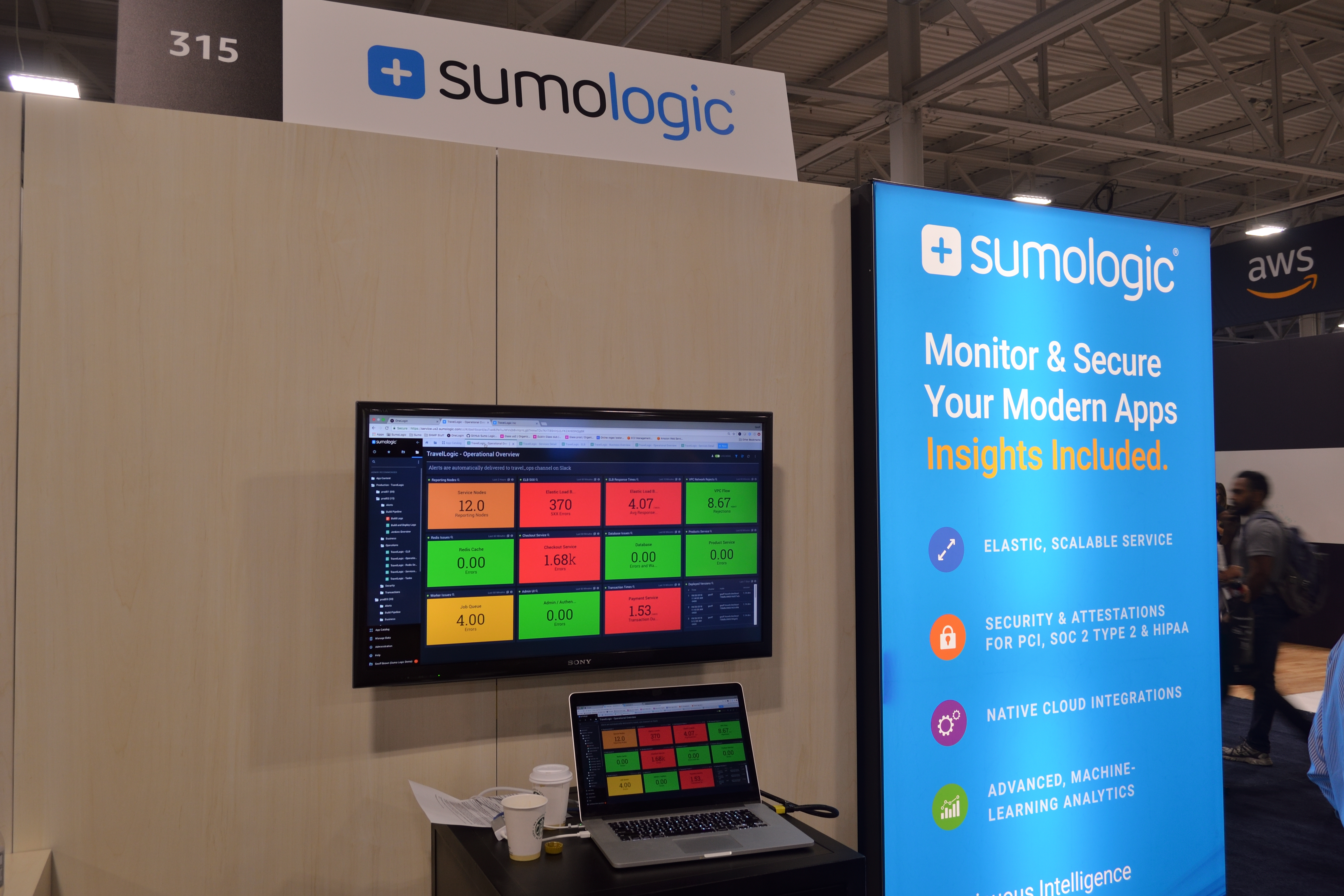 Sumo Logic at AWS Toronto Summit 2018